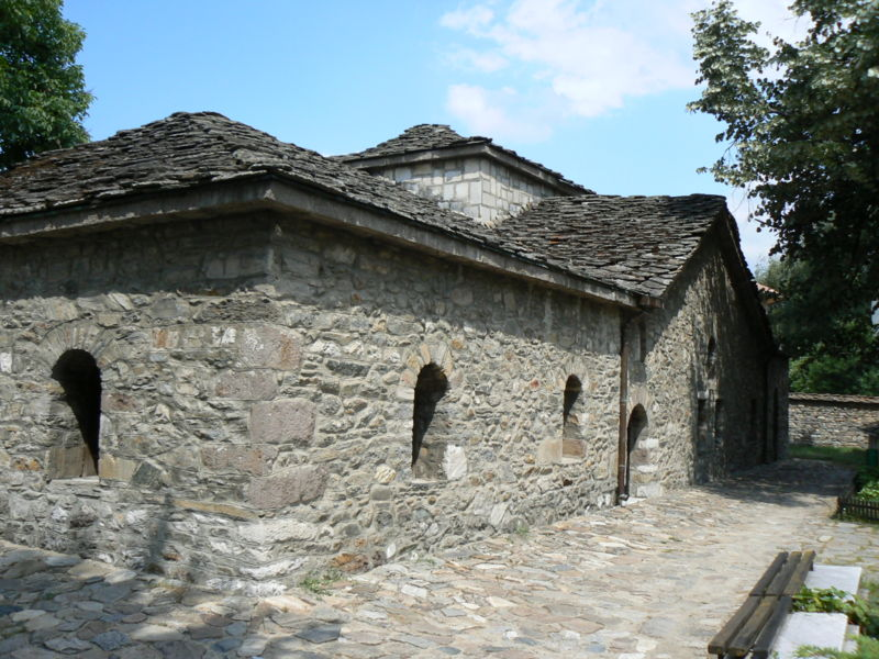 "St Nedelya" - the old church of Batak, Bulgaria.